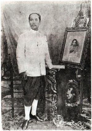 Portrait of King Chulalongkorn of Siam (now Thailand) wearing the raj pattern costume